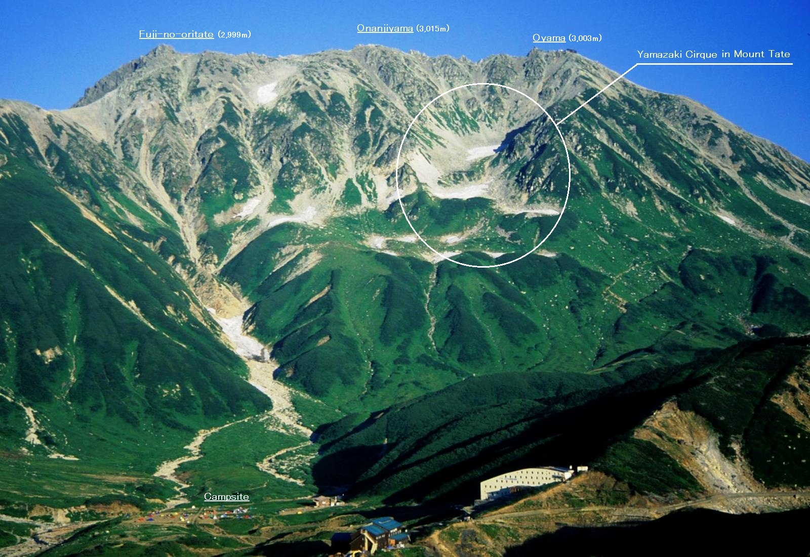 Yamazaki Cirque in Mount Tate, Hida Mountains, Japan.